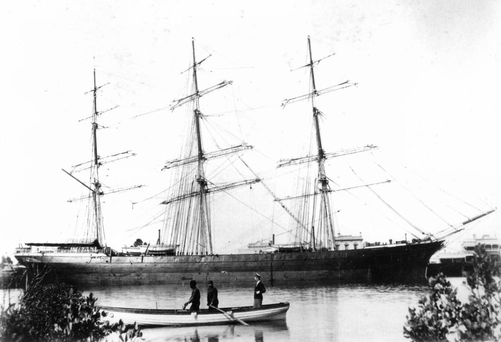 Star of Bengal (ship) Ship: Star of Bengal Rig: Three-masted bark Hull: Iron Launched: 1874 Out of service: 1908 Builder: Harland & Wolff, Belfast Dimensions: 262.8’ x 40.2’ x 23.5’ Tonnage: 1694 tons [1] ↑ Dyal, Donald H (2008). Alaska Packers Association: Narrative. .pdf file. Texas Tech University Digital Collections. Retrieved on March 15, 2011.